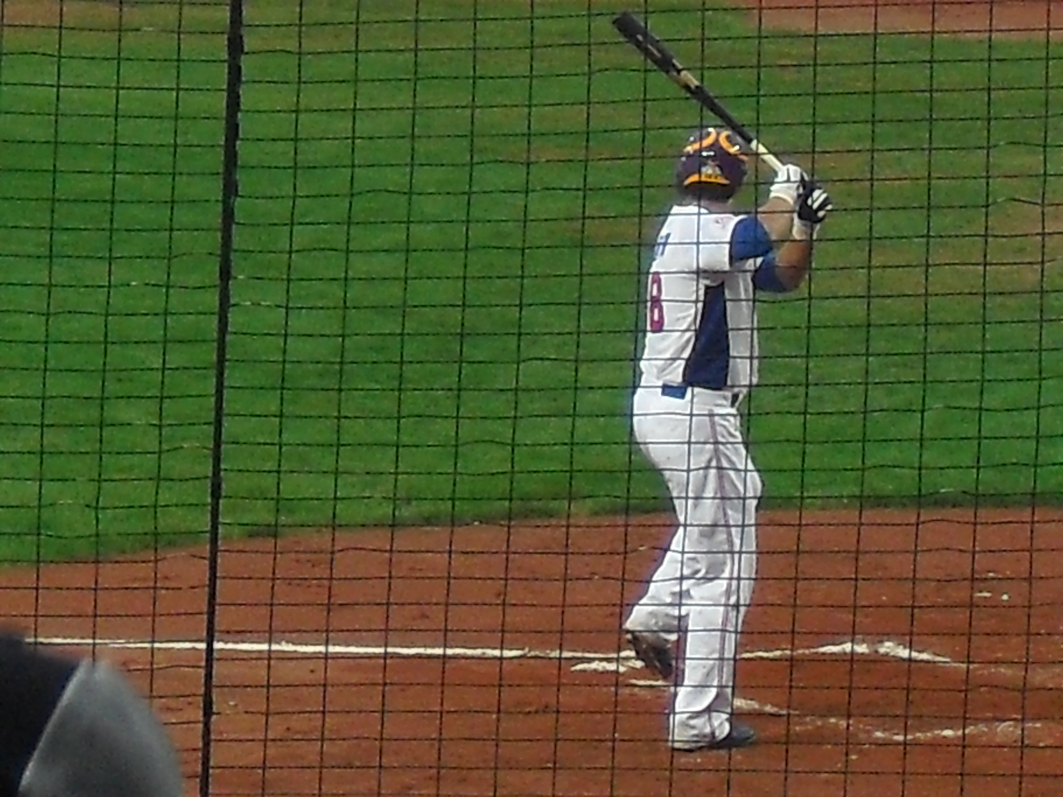 Kuo Hui Kao at a baseball game of Taichung of Taiwan in April 13, 2013.